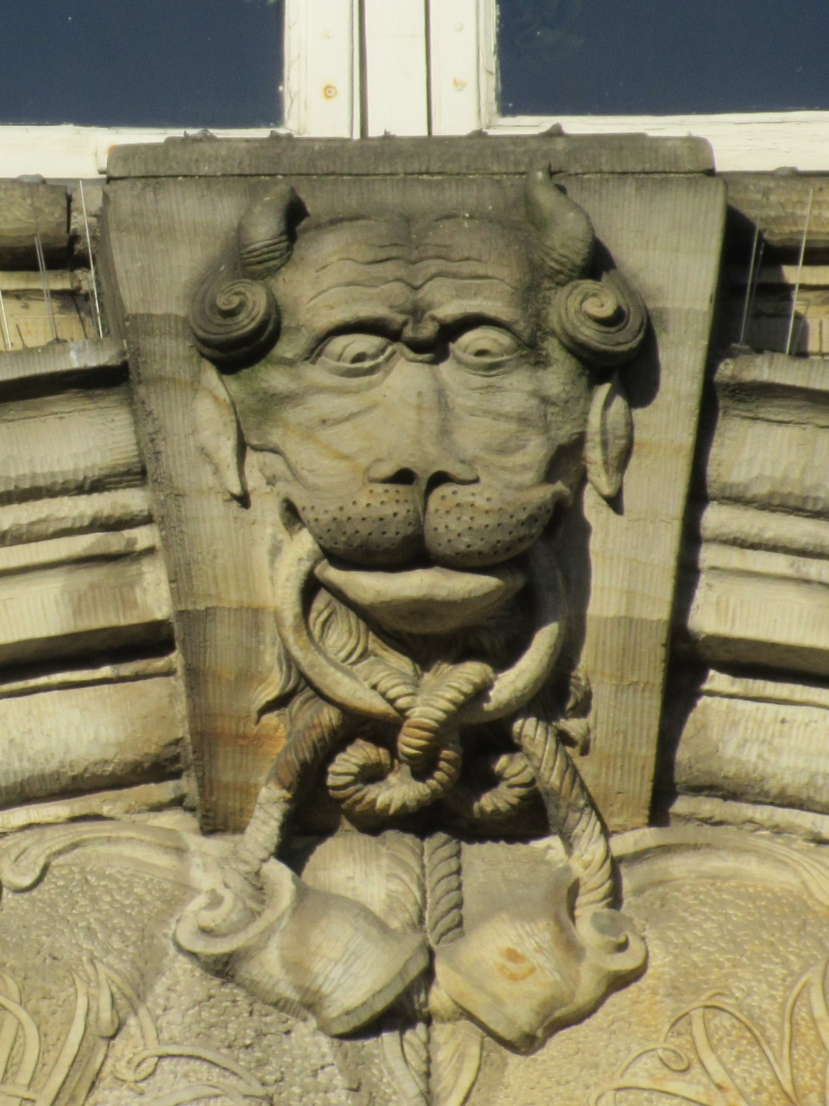 Hofkonditor Zieglers Gård in Copenhagen, Denmark